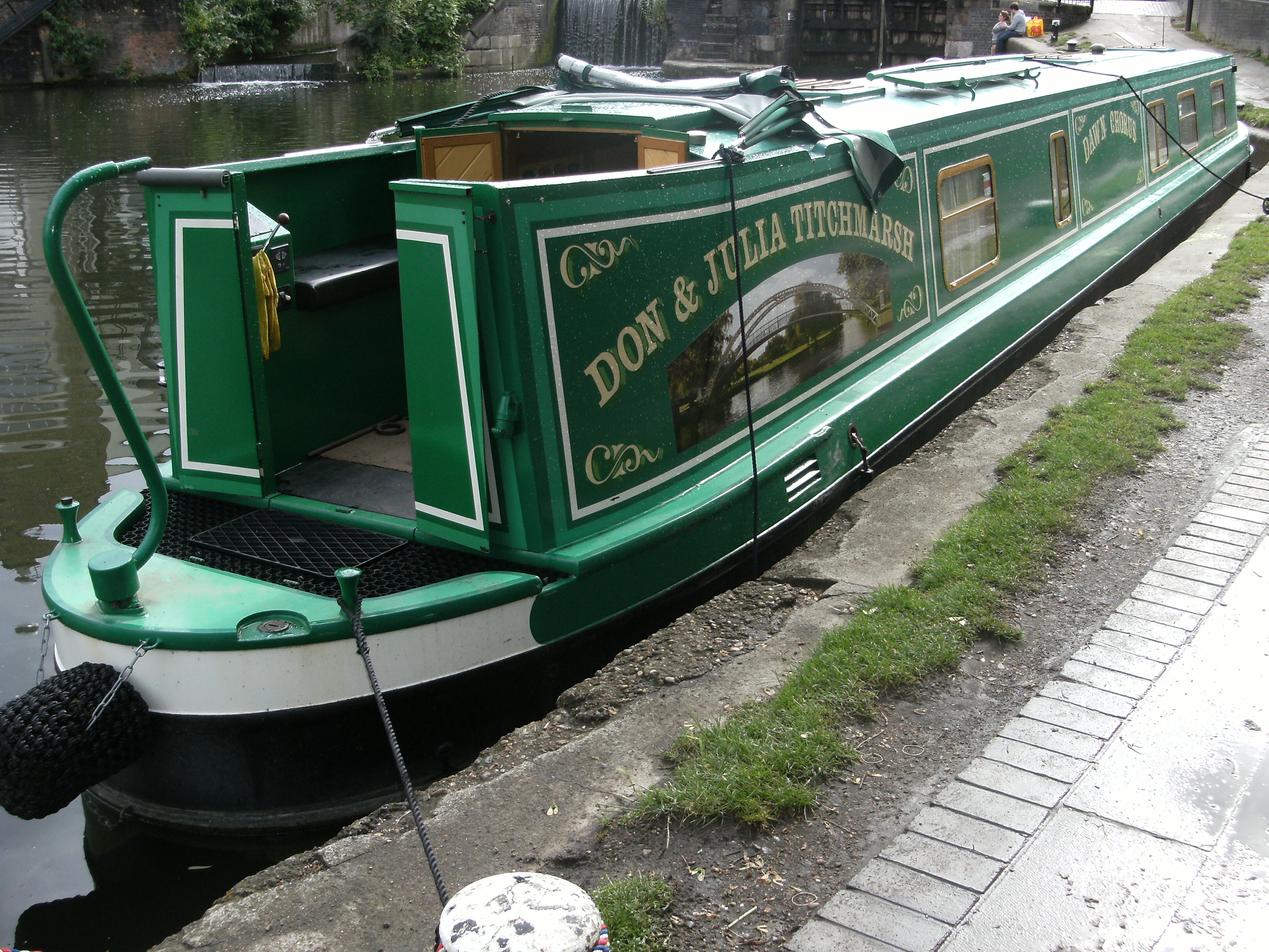 The Narrowboat Dawn Chorus on the Regents Canal in London on 3 June 2011. Dawn Chorous is a narrowboat designed to navigate the narrow canals of England. The boat features a semi-traditional stern, and a steering tiller